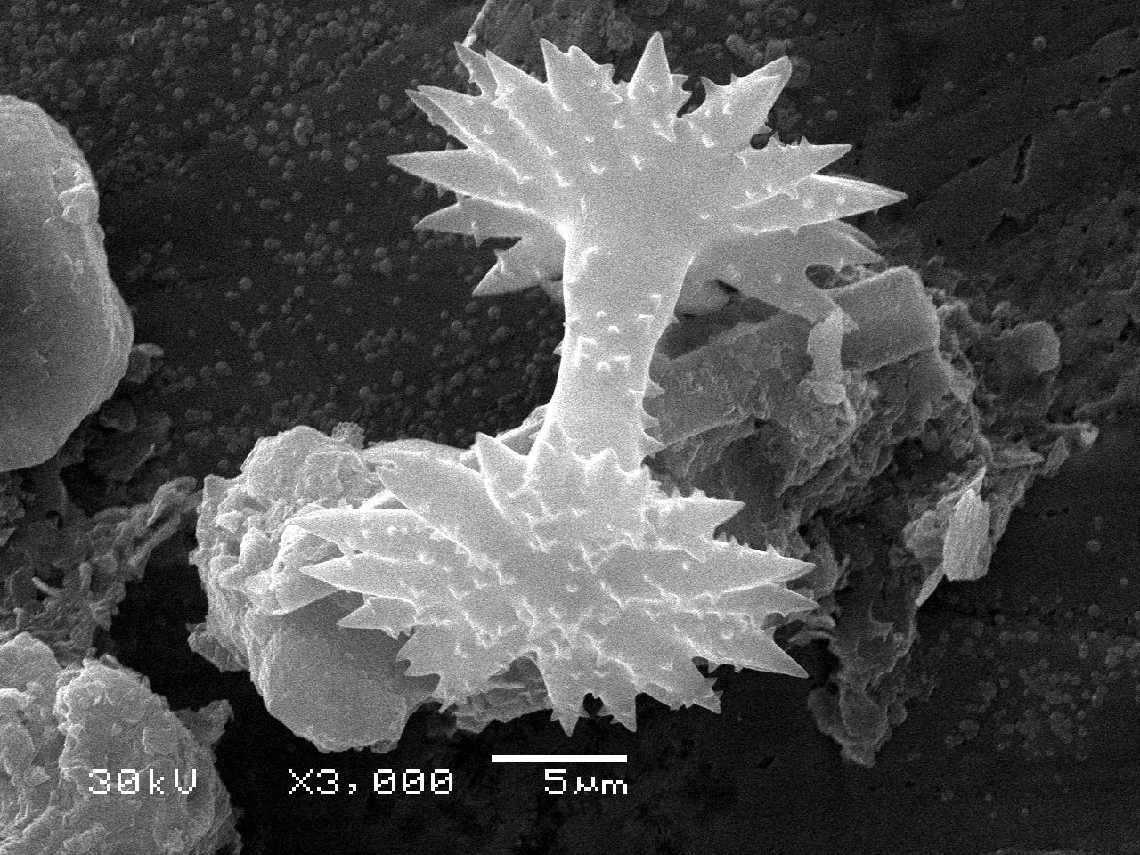 Spicules of sponge (SEM).Foto was created in M.G. Kholodny Institute of Botany